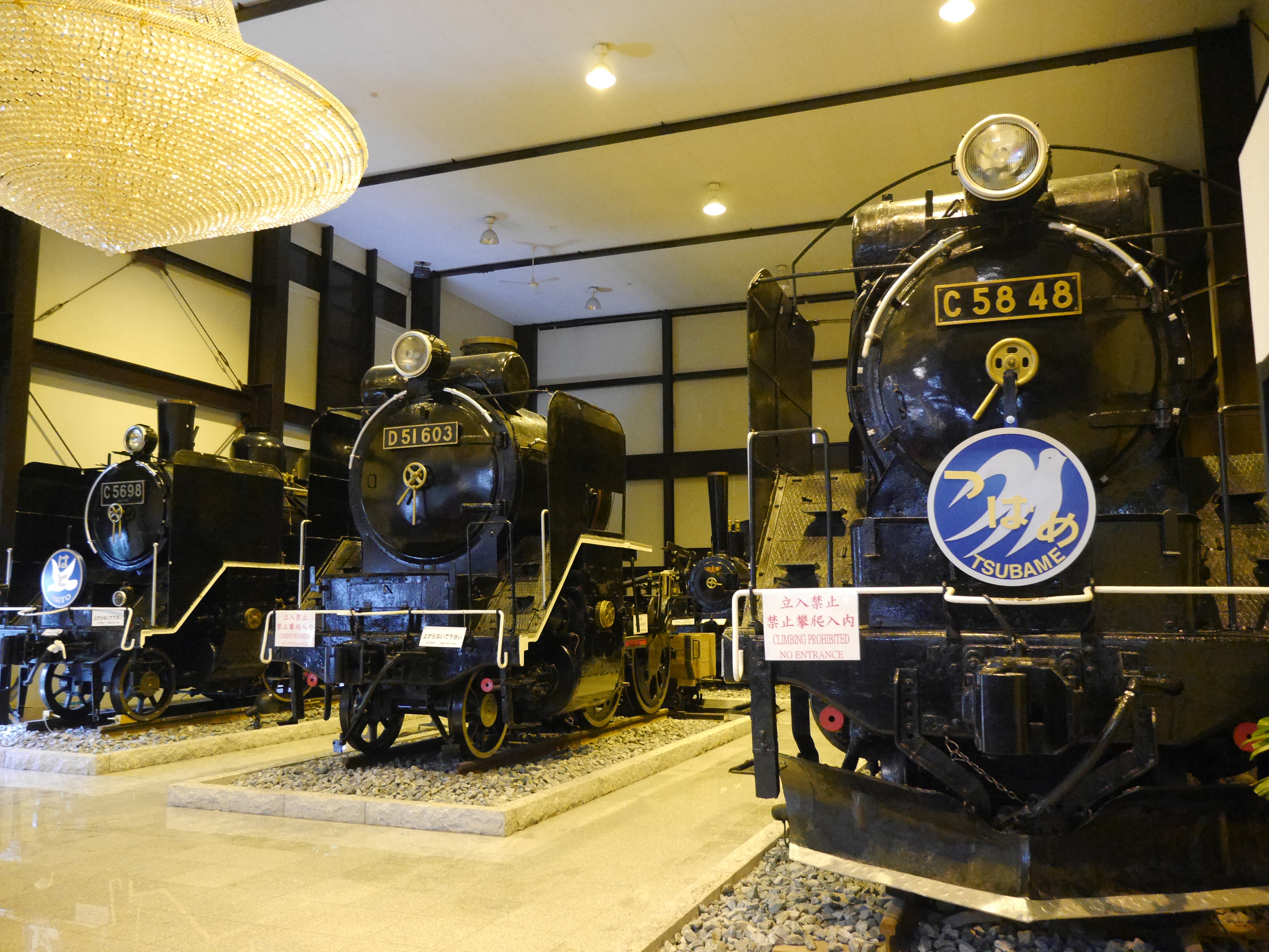 Steam engines at the 19th century hall adjacent to Torokko Saga station